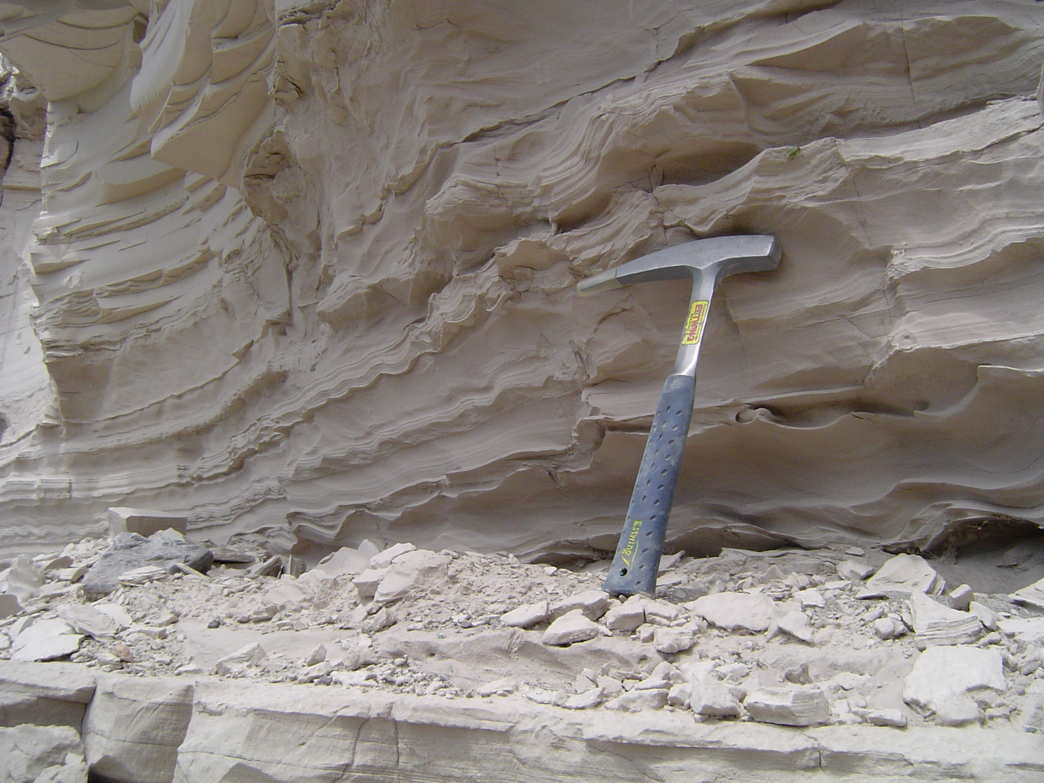 Very-fine-grained sediment from Glacial Lake Missoula, Montana, USA.